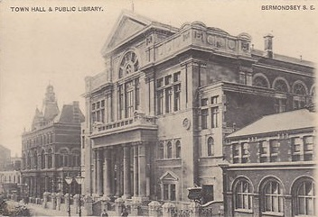 Old postcard showing Bermondsey Town Hall